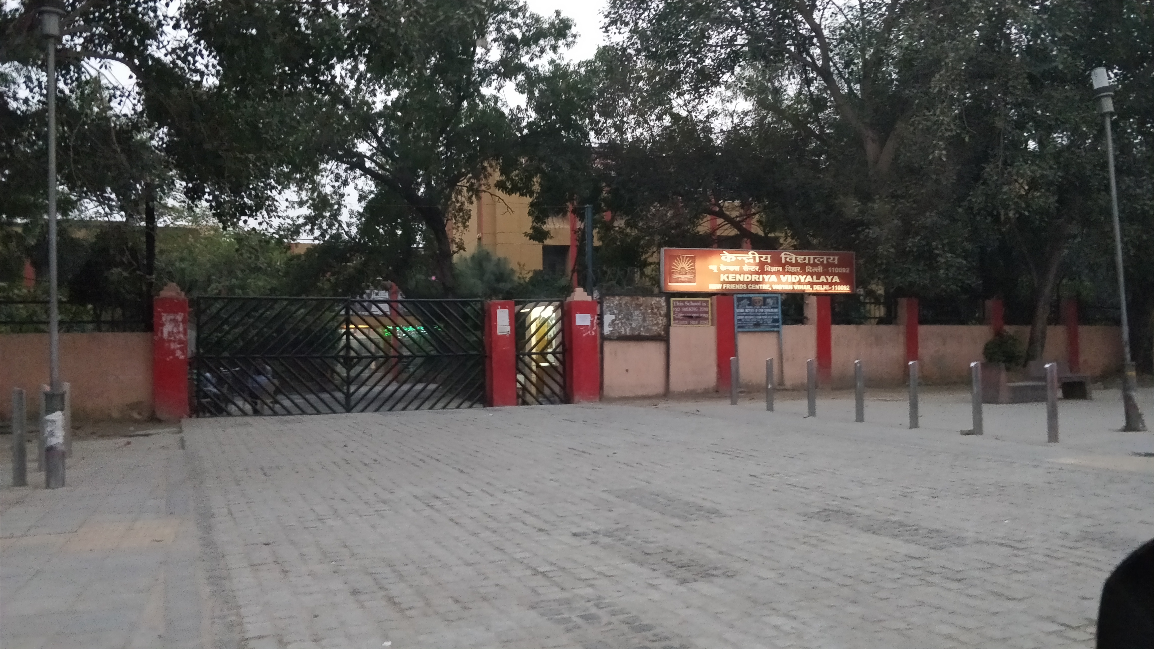 Kendriya Vidyalaya Vigyan Vihar, is a school in Delhi, India and one of the schools under the group known as the Kendriya Vidyalayas, a system of central government schools under the Ministry of Human Resource Development (India).